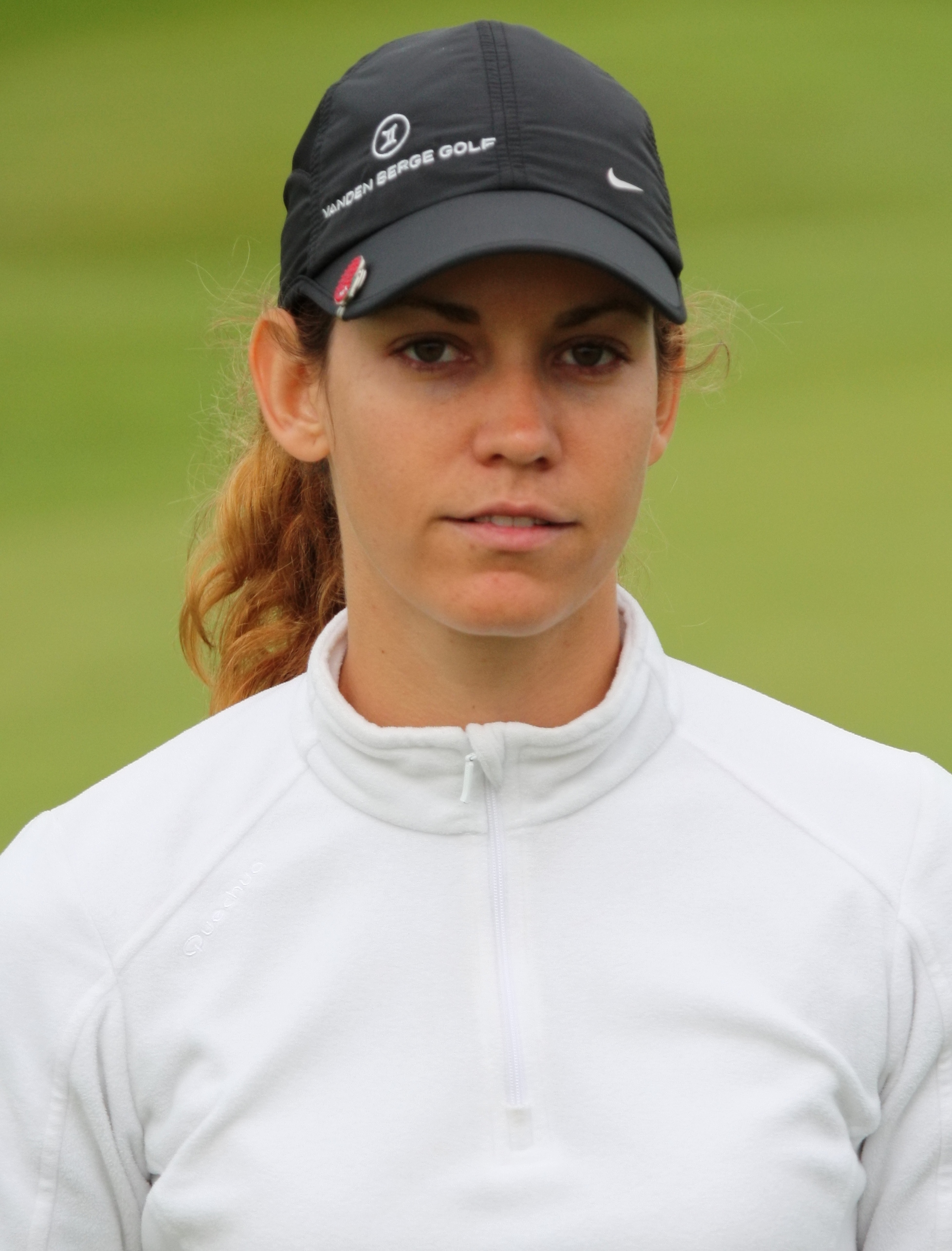 LYTHAM ST ANNES, UNITED KINGDOM - JULY 29: Emma Cabrera-Bello of Spain walks off the 15th green during third practice round before 2009 Ricoh Women's British Open held at Royal Lytham & St Annes on July 29, 2009 in Lytham St Annes, England. (Photo by Wojciech Migda)